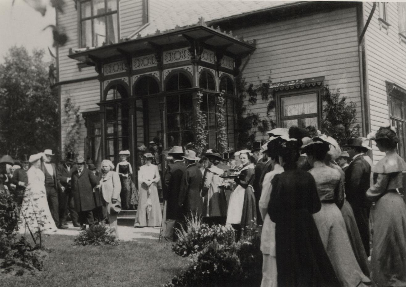 Artist: unknown Date/place: 15. june 1903, Troldhaugen/Bergen/Norway Subject: Edvard Grieg's 60th birthday Medium: photographic positive, B&W Notes: none Persistent URL: [#//nettbiblioteket.no/grieg-samlingen/engelsk/grieg_intro_eng.html” Original belongs to the Edvard Grieg Archives at Bergen Public Library]